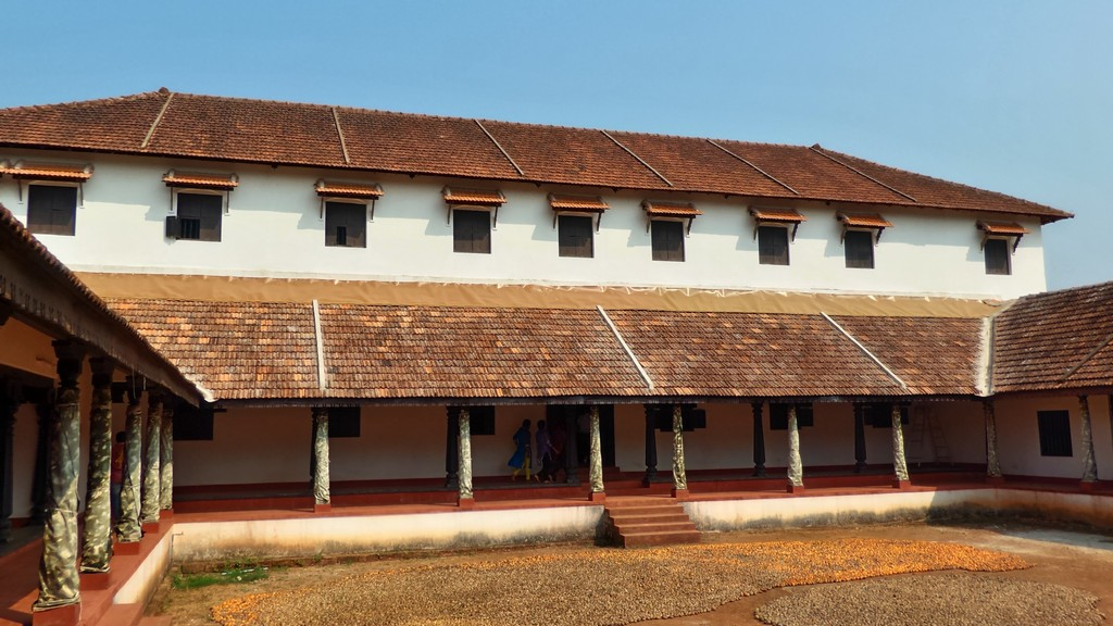 Photo of "Guttu mane" located in the heritage village Dakshina Kannada district of coastal Karnataka, India